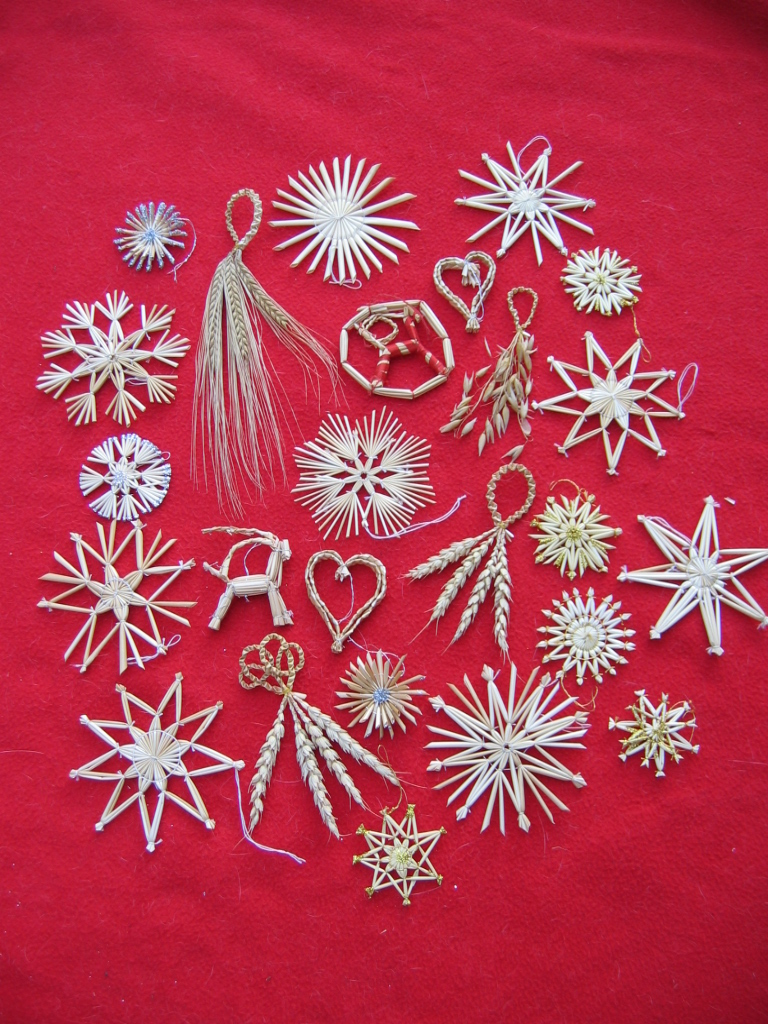 corn dolly Straw Miscellany